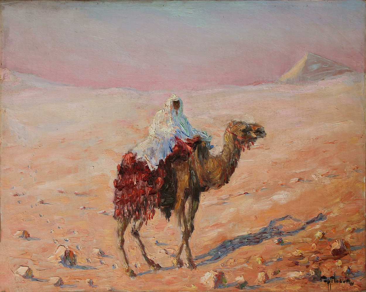 Bedouin on the camel